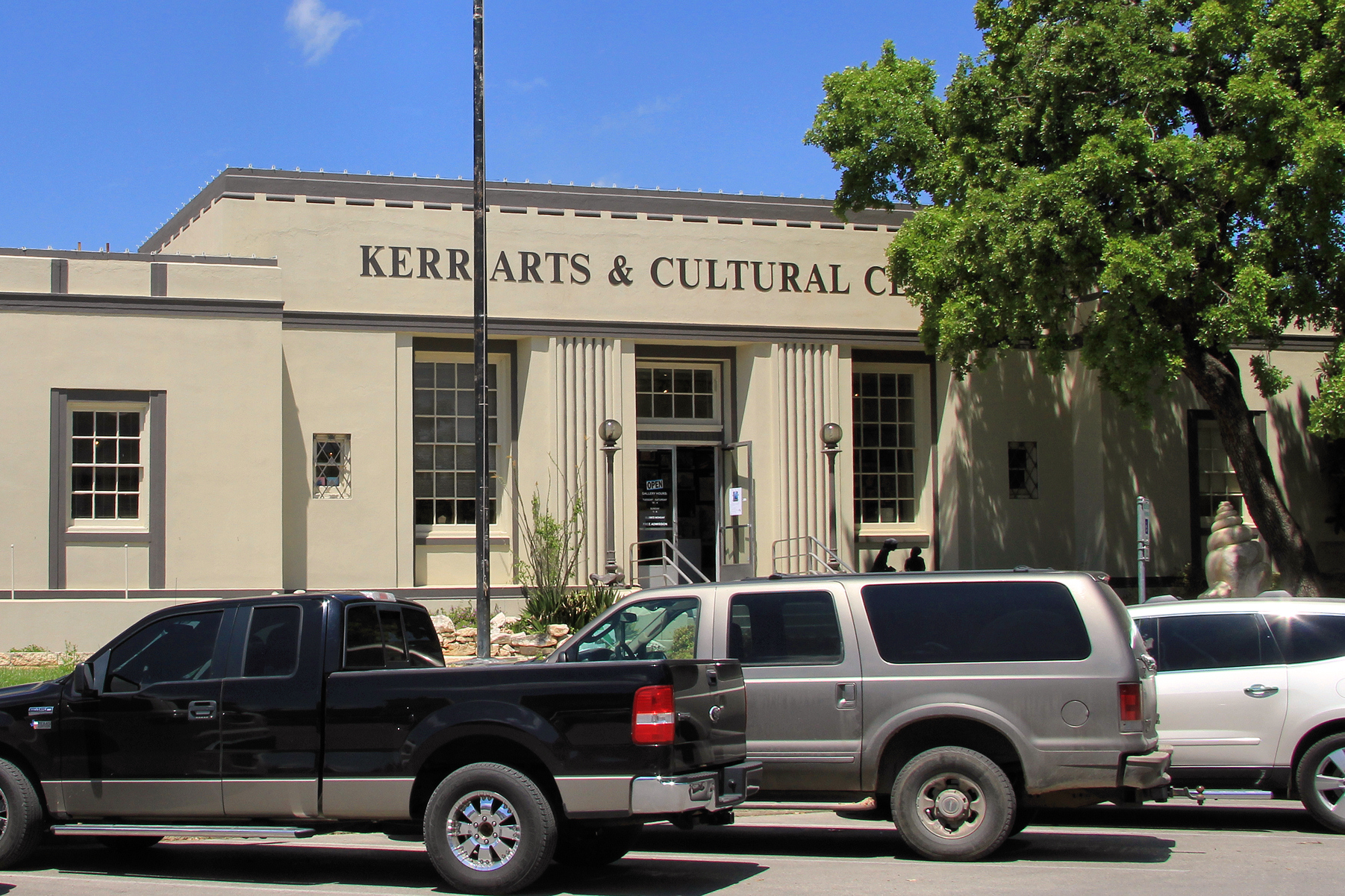 The Kerr Arts and Cultural Center in the former post office in Kerrville, Texas, United States.